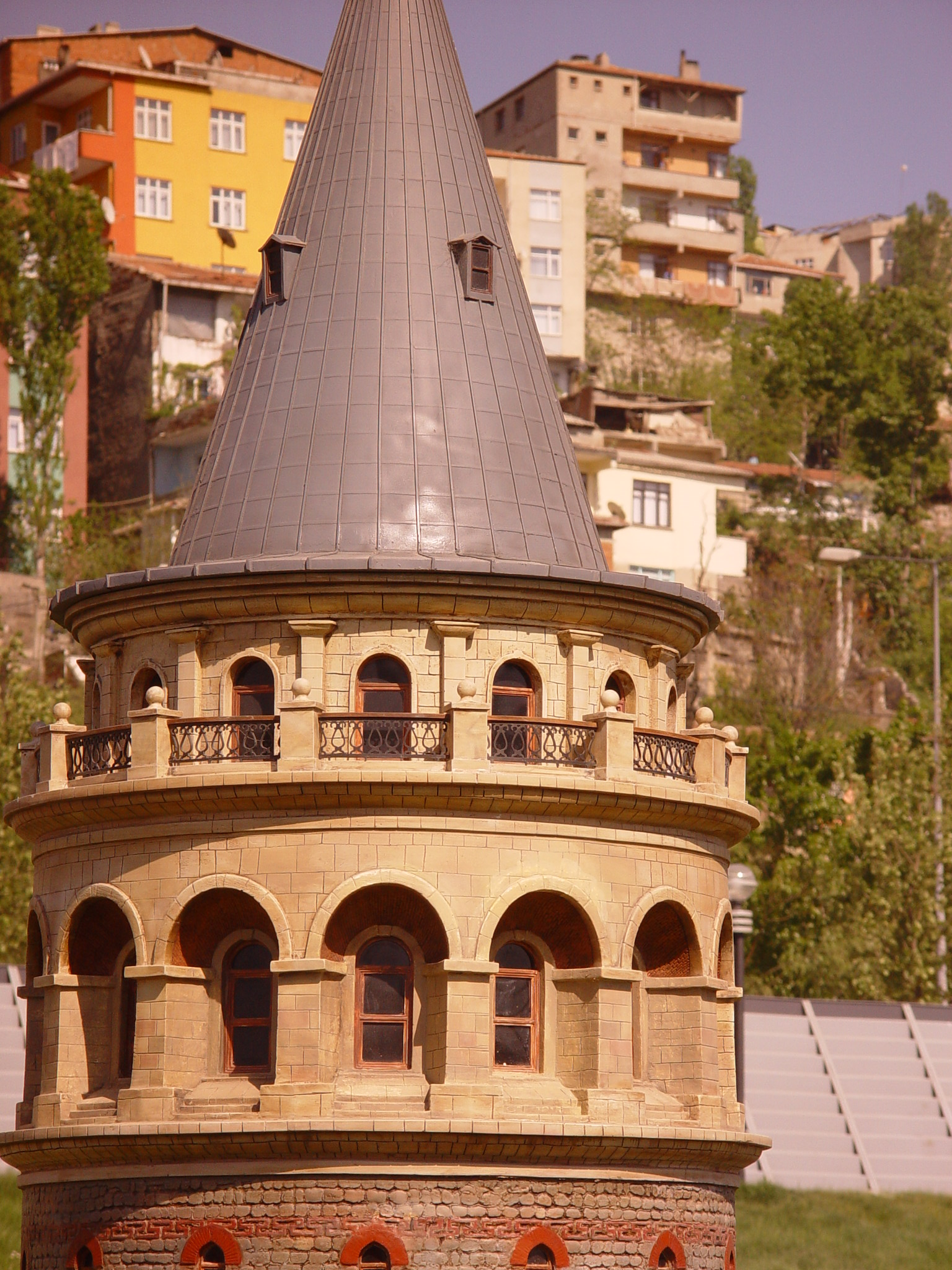 Photographs from Miniatürk - Google Maps - Google Earth